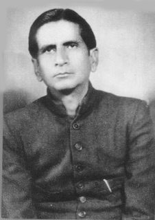 Photograph